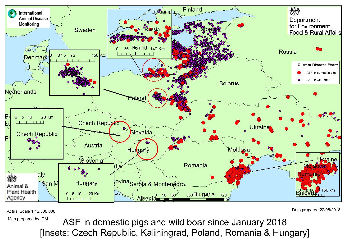 African Swine fever in Eastern Europe. Updated Outbreak Assessment 16. 23 August 2018